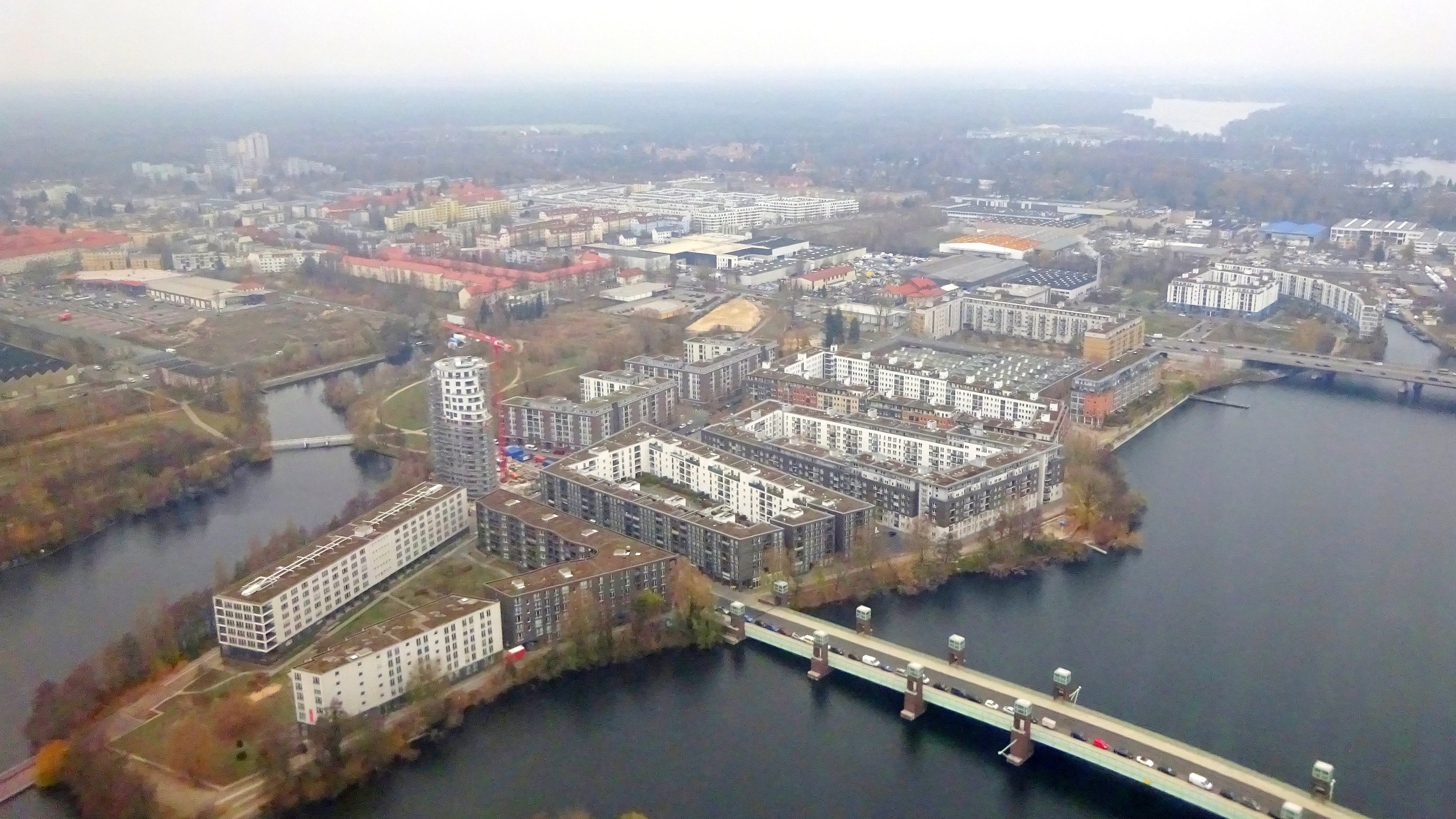 Photo taken from an airplane during landing approach to Tegel airport (TXL), showing the Havelspitze neighbourhood in the "Wasserstadt Spandau" area of Spandau district in Berlin, Germany. Also visible are two bridges over the Havel river, the "Spandauer-See-Brücke" in the foreground, and Wasserstadtbrücke in the background.